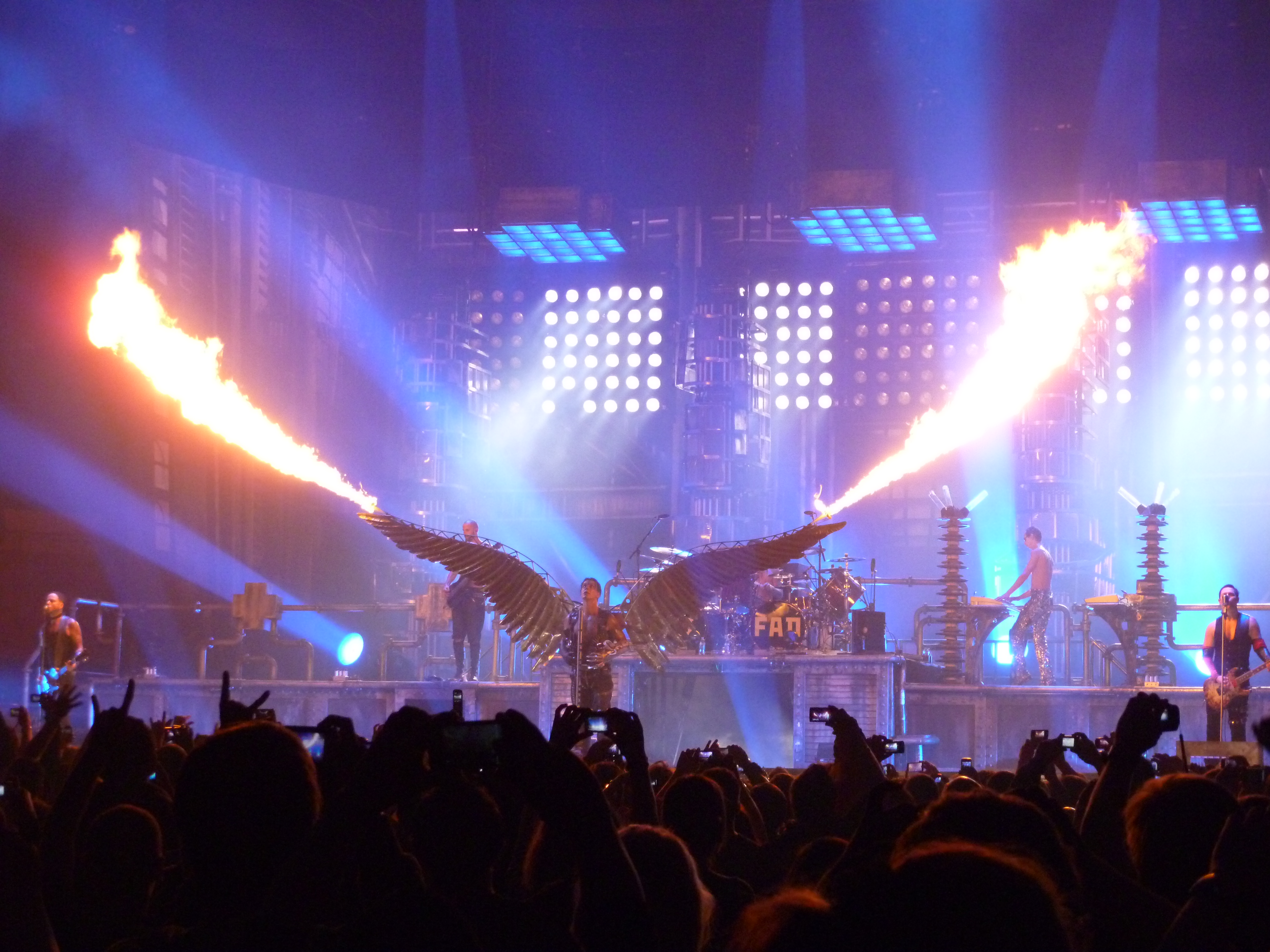 "Engel" - live from New York City (12-11-2010)